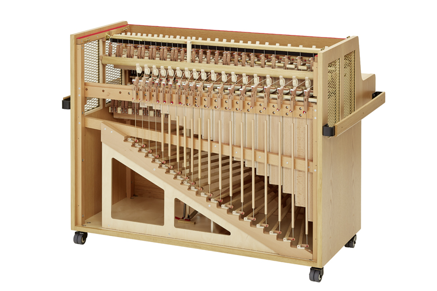 Schiedmayer-Celesta, studio model, open, seen from behind.